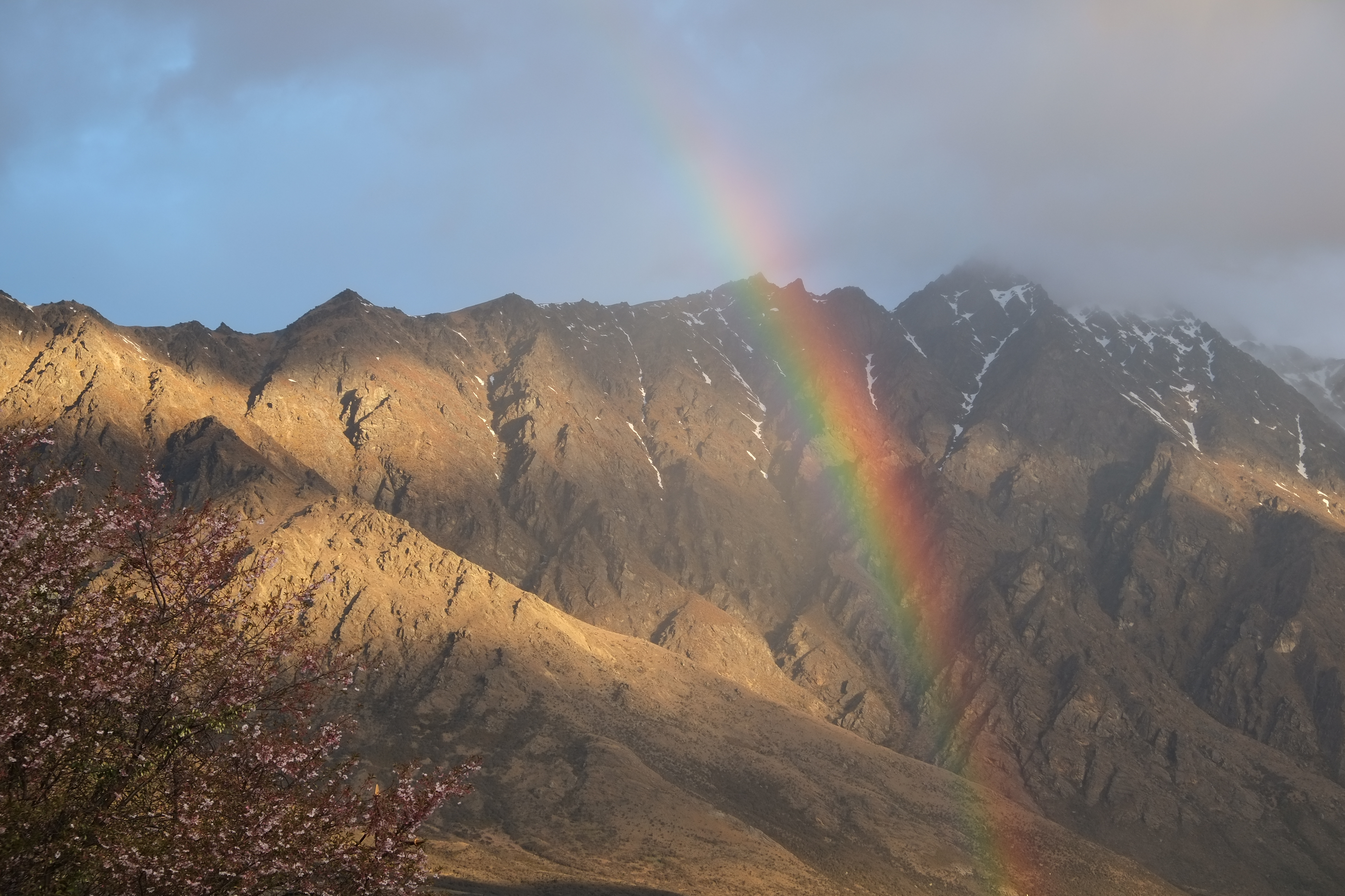 Rainbow in front of the Remarkables with patches of evening sunlight